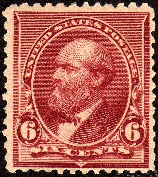 US Postage Stamp: James Garfield, Issue of 1890, 5c